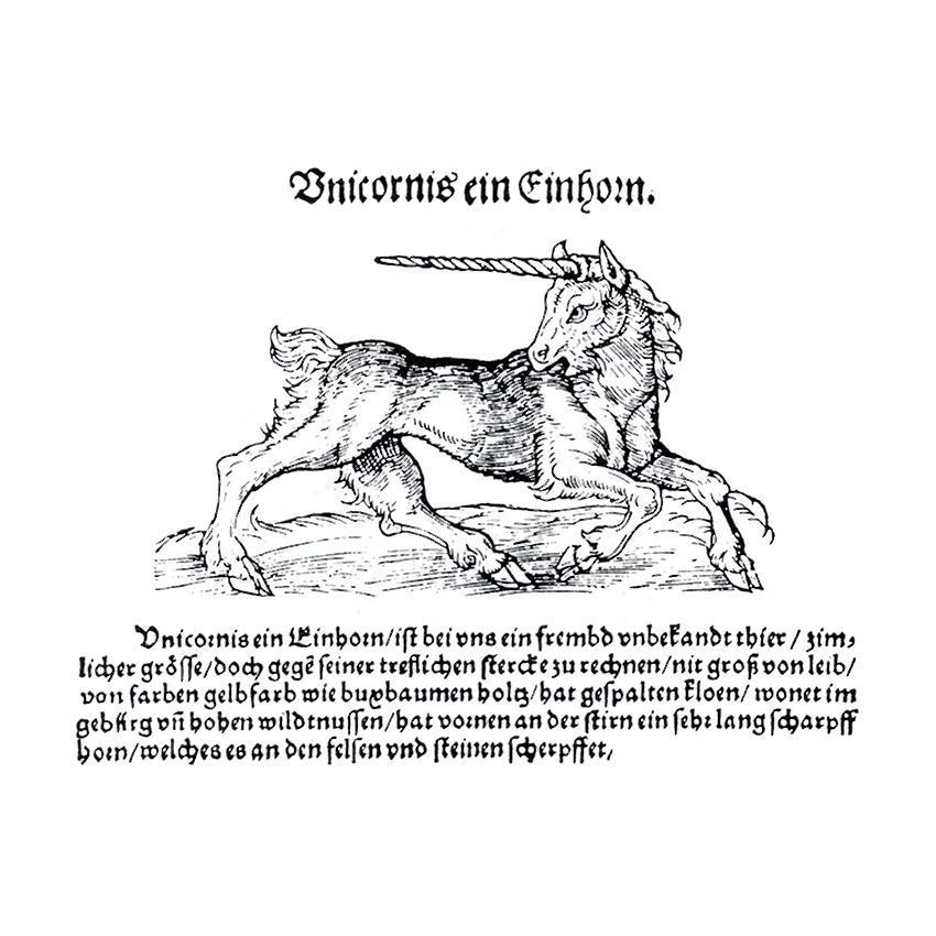 Unicorn. Albertus Magnus, De animalibus, woodcut, Frankfurt am Main, 1545.